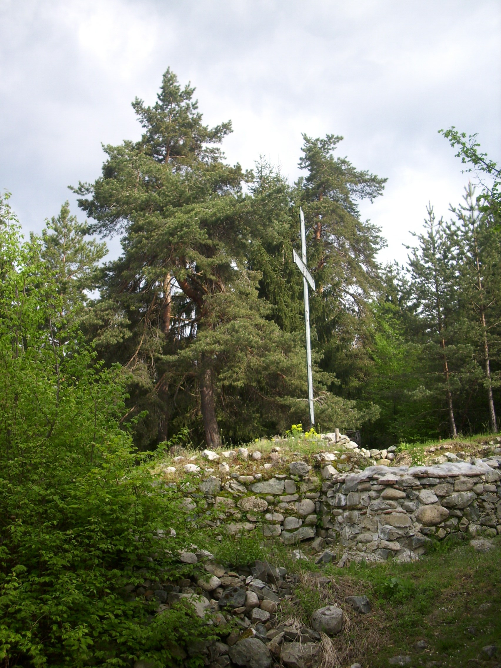 Tzar Shishman of Bulgaria fortress Samokov